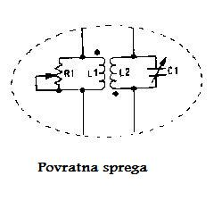 kolo povratne sprege